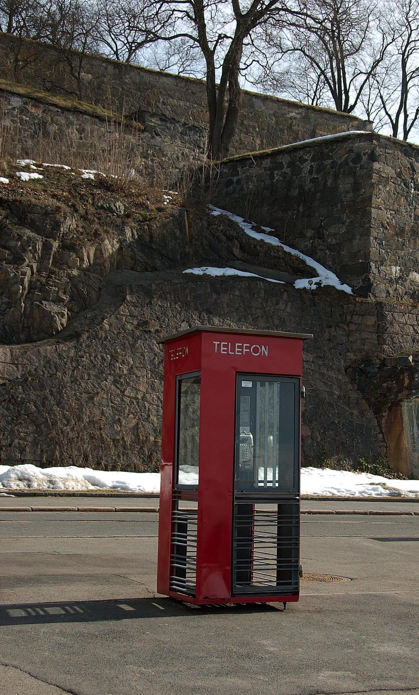 The first phoneboth in Norway in front of Akershus fortress in Oslo, Norway. 1933.